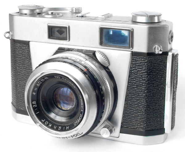 Okaya Lord 4D